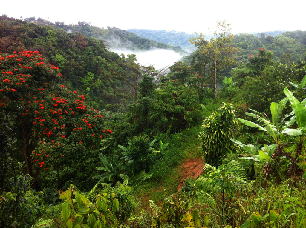 Unretouched image of the mountains of Jayuya